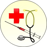 Medicine